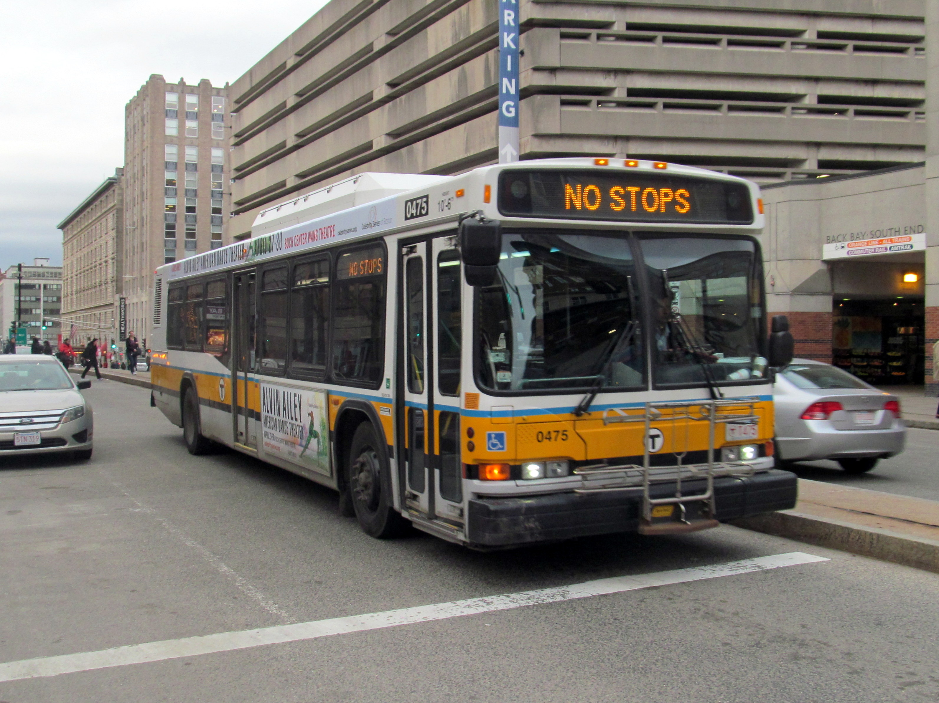 A Dudley-bound route 170 bus (signed NO STOPS as it is an express route) at Back Bay station in February 2017